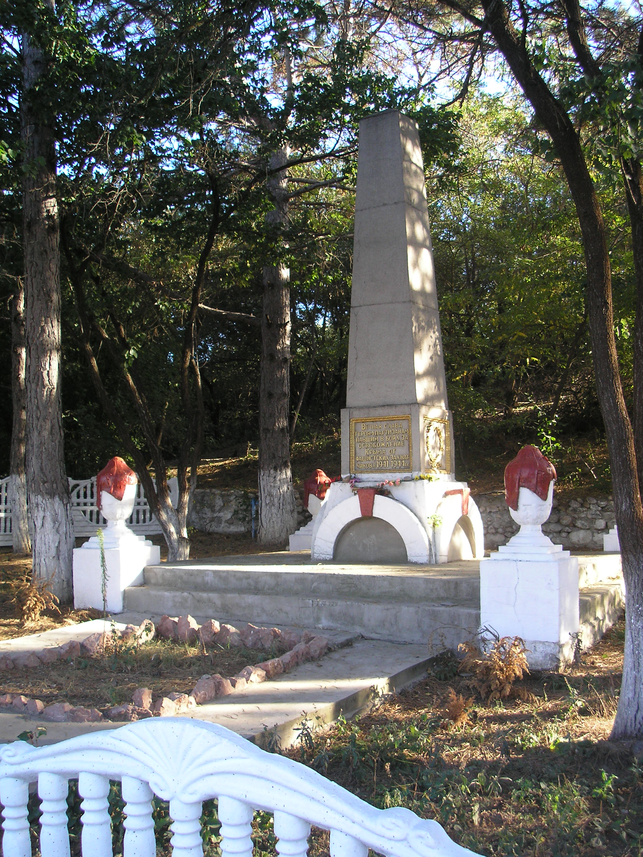 Village Perevalnoe, Simferopol district, Crimea. Monument to partisans.